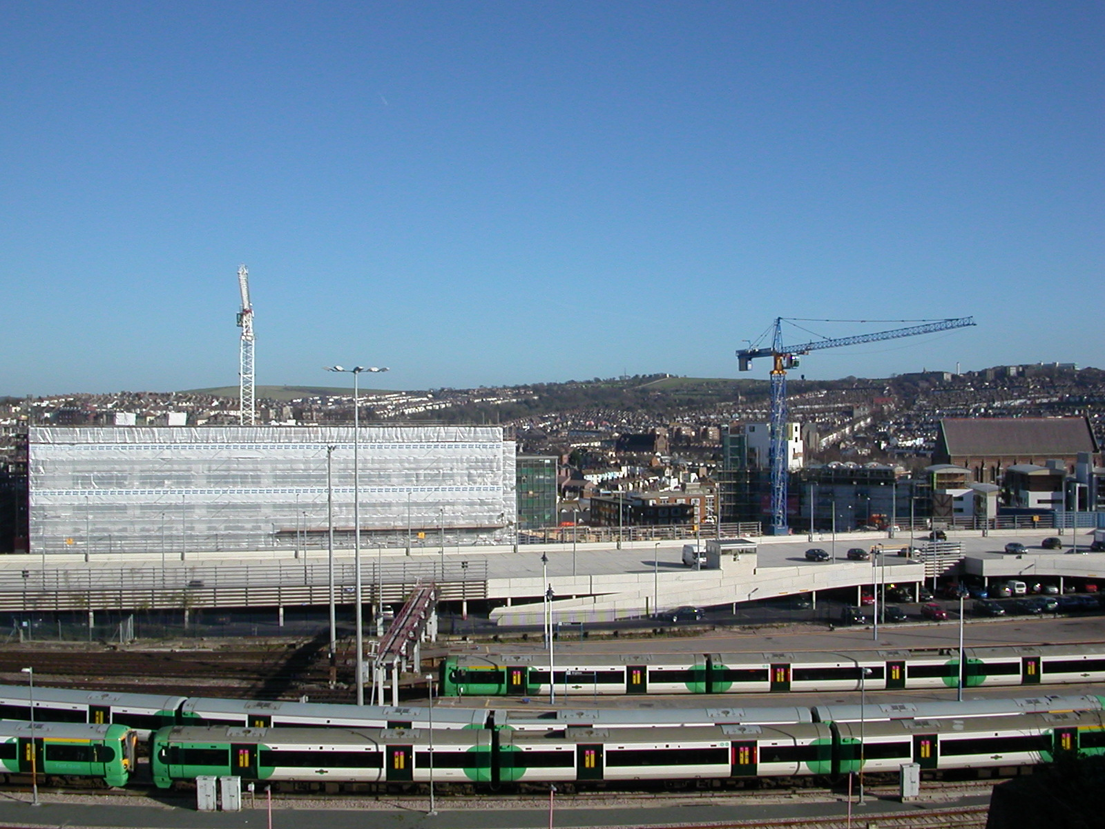 New England Quarter - eastward view from Howard Place, across the car park.